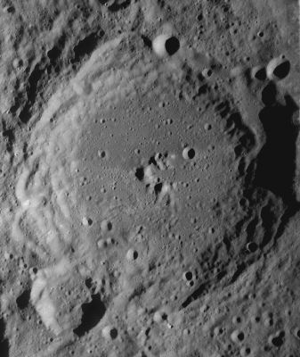 LROC mosaic WAC image (No.s M130694561ME and M130681002ME).